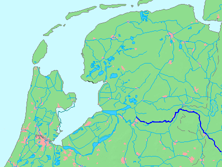 Location of a waterway (river/canal) in the Netherlends